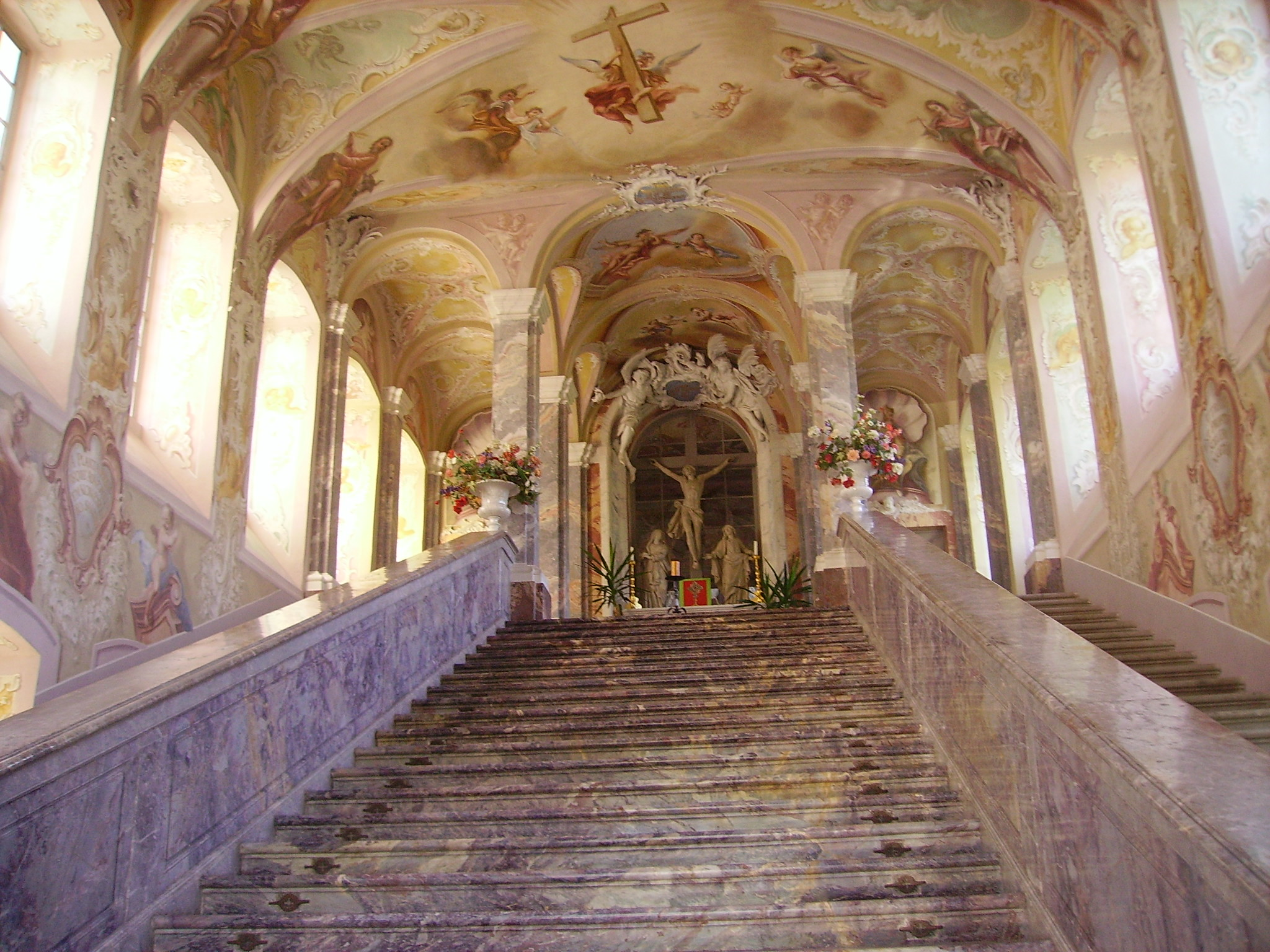 Holy Stairs of the Kreuzbergkirche, Bonn